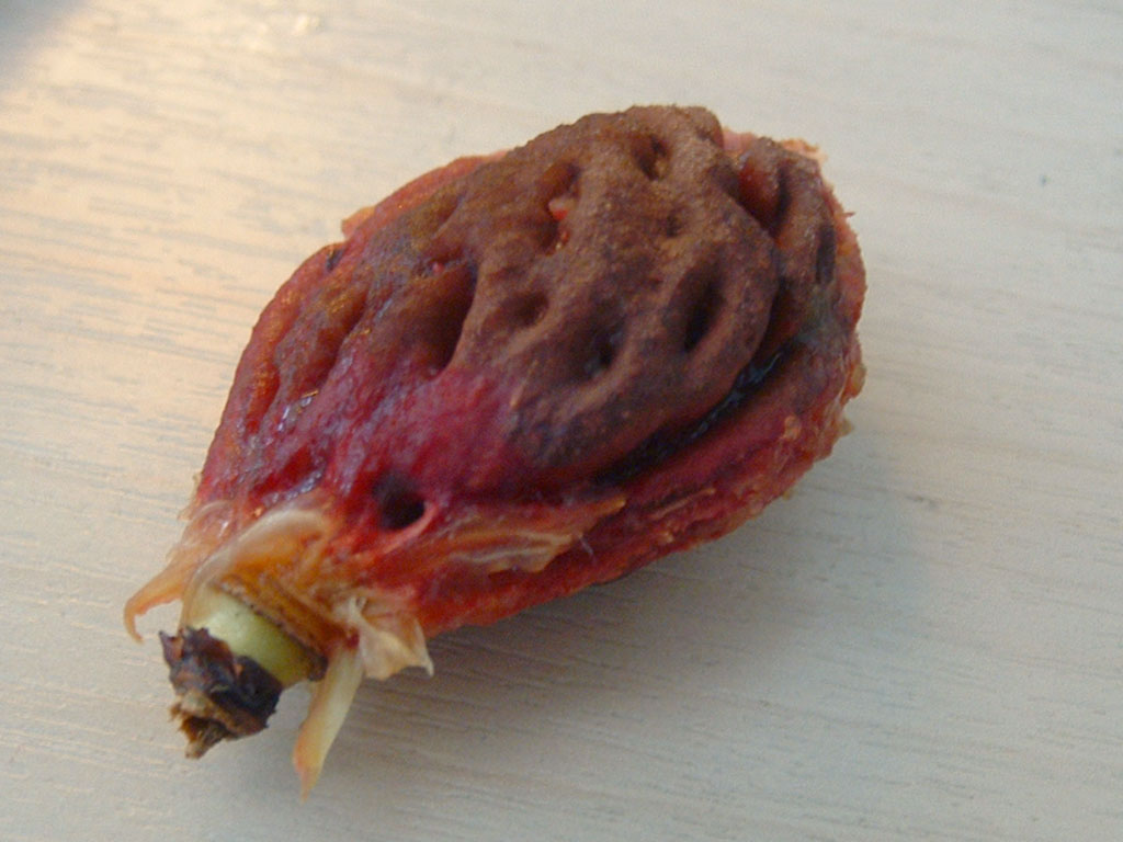 A stone from a nectarine fruit